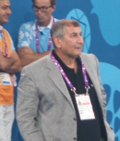 Faig Garayev at the 2015 European Games